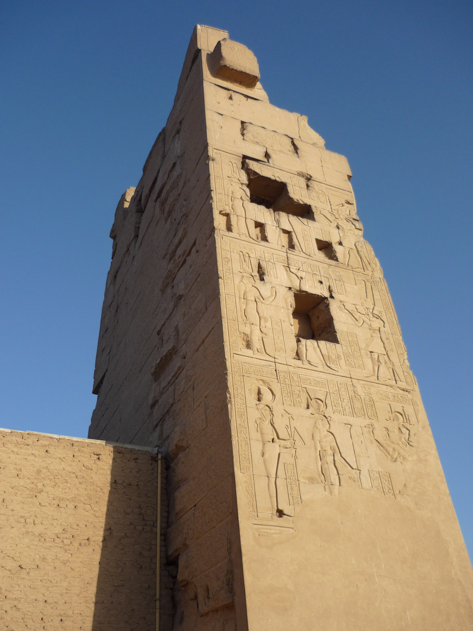 Ptoleme XII Neo Dionysos Auletes. Kom Ombo Temple, Egypt